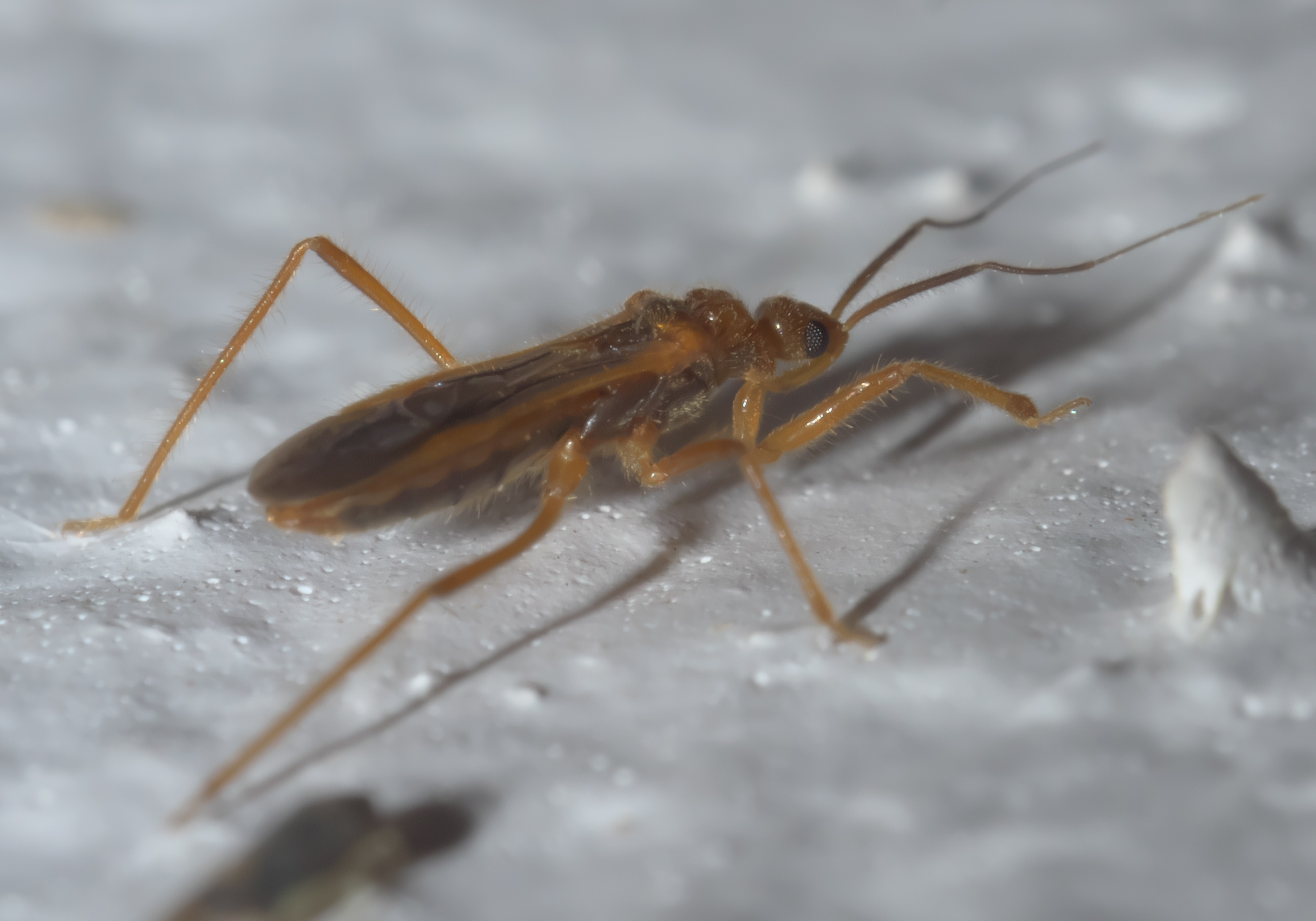 Oncerotrachelus acuminatus, Family: Assassin Bugs, ID Confidence: 90